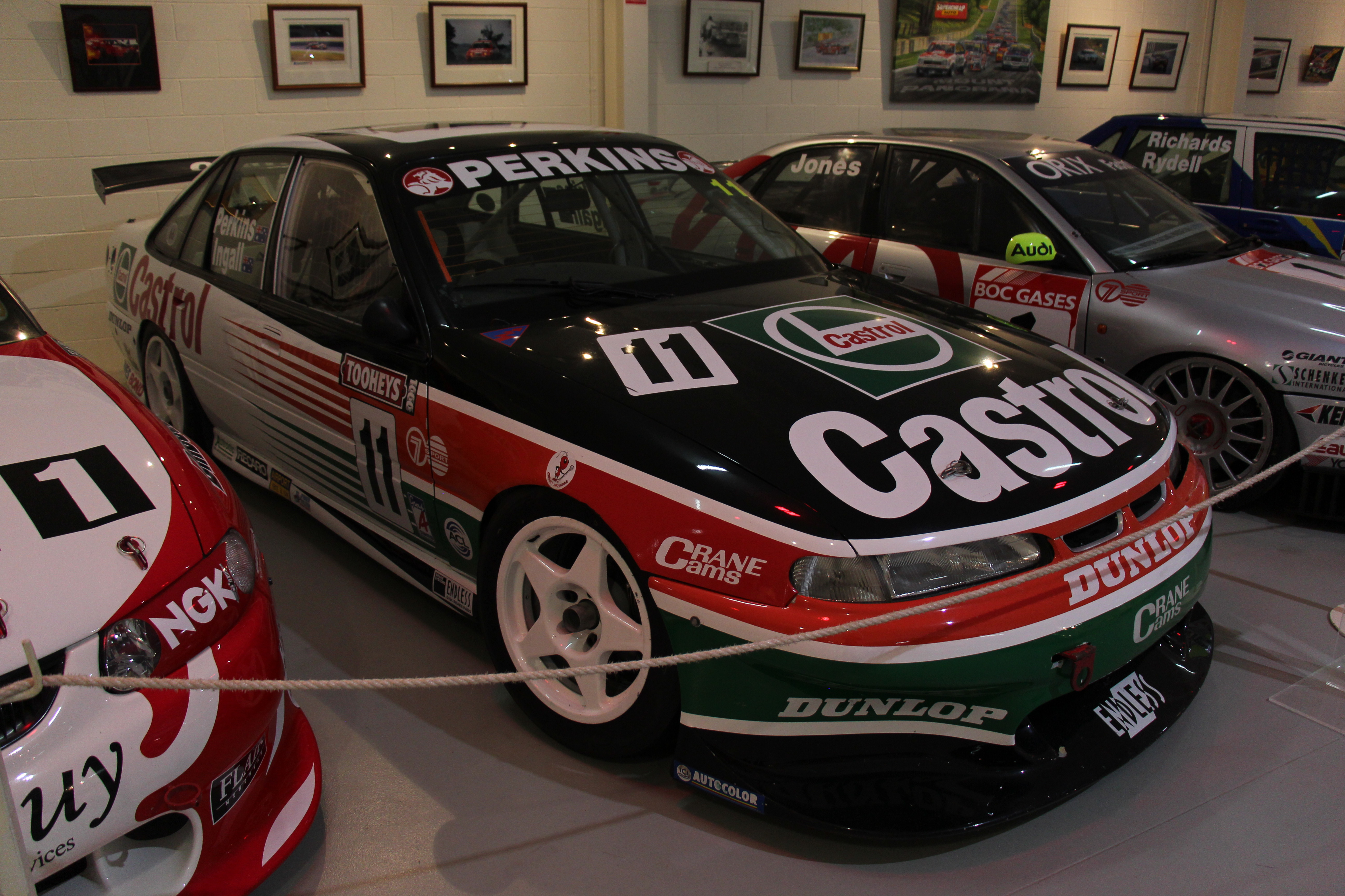 The VR Commodore was built from July 1993-April 1995. The VR was a major facelift on the 2nd generation Commodore, with only the doors and roof remaining unchanged. It got a smoother body with a new grille, the taillights were set up high. The 1995 Tooheys 1000 at Bathurst was won by this car, driven by Larry Perkins and Russell Ingall. Perkins clashed with the slow starting HRT Commodore of Craig Lowndes before the first turn, pitting to replace a tyre, the car ended up running last. They started to climb back into contention, helped by ailing cars and Safety car periods, they were back in the top 5 with 20 laps to go. Second was Jones and Grice in a EF Falcon and third was Gardner and Crompton in a similar VR Commodore.